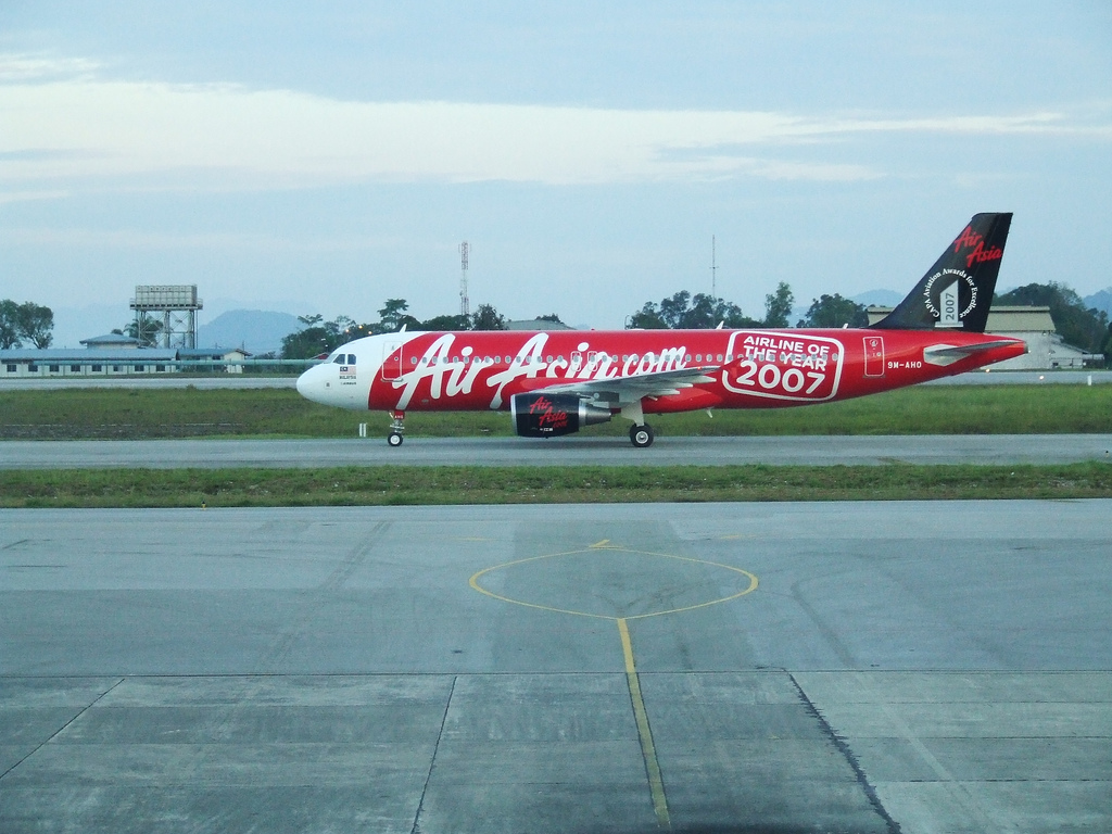 AirAsia plane sporting the "Airline of the Year" livery, taxying to its gate in Kuching. Taken with a Fujifilm FinePix S5600 through the terminal window.